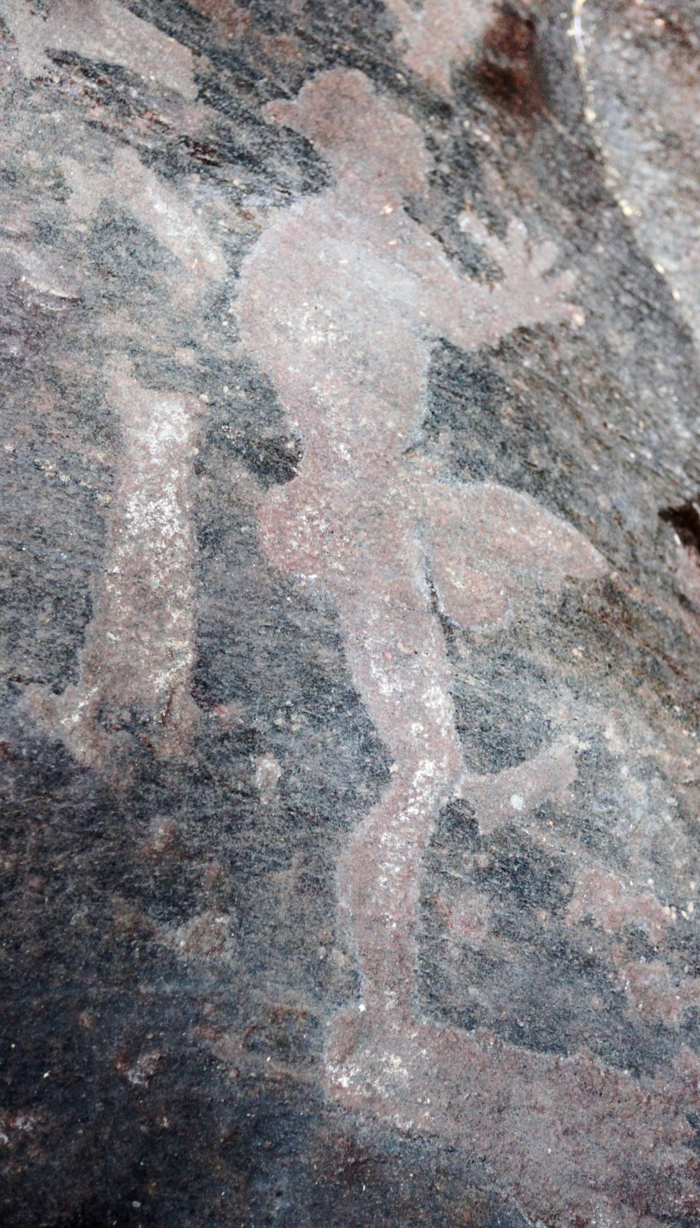 Petroglyphs in Belomorsk, Russia